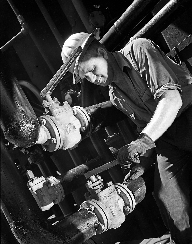 Title: Reed Roller Bit at Shell Oil refinery, Deer Park, Texas Creator: Robert Yarnall Richie Date: June 1940 Part Of: Robert Yarnall Richie Photograph Collection Place: Deer Park, Texas Physical Description: 1 negative: film, black and white; 12.6 x 10.1 cm. File: ag1982_0234_2153_31_reedrollerbitco_sm_opt.jpg Rights: Please cite DeGolyer Library, Southern Methodist University when using this file. A high-resolution version of this file may be obtained for a fee. For details see the web page. For other information, . For more information and to view the image in high resolution, View the Robert Yarnall Richie photograph collection